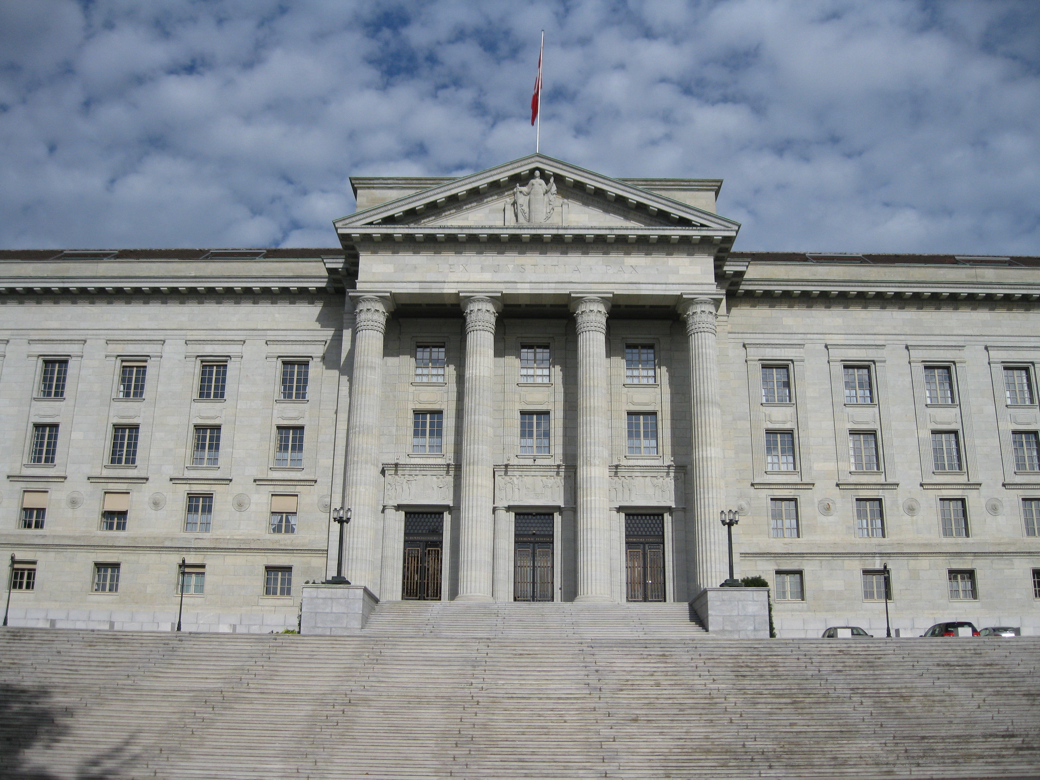 Federal Supreme Court of Switzerland in Lausanne